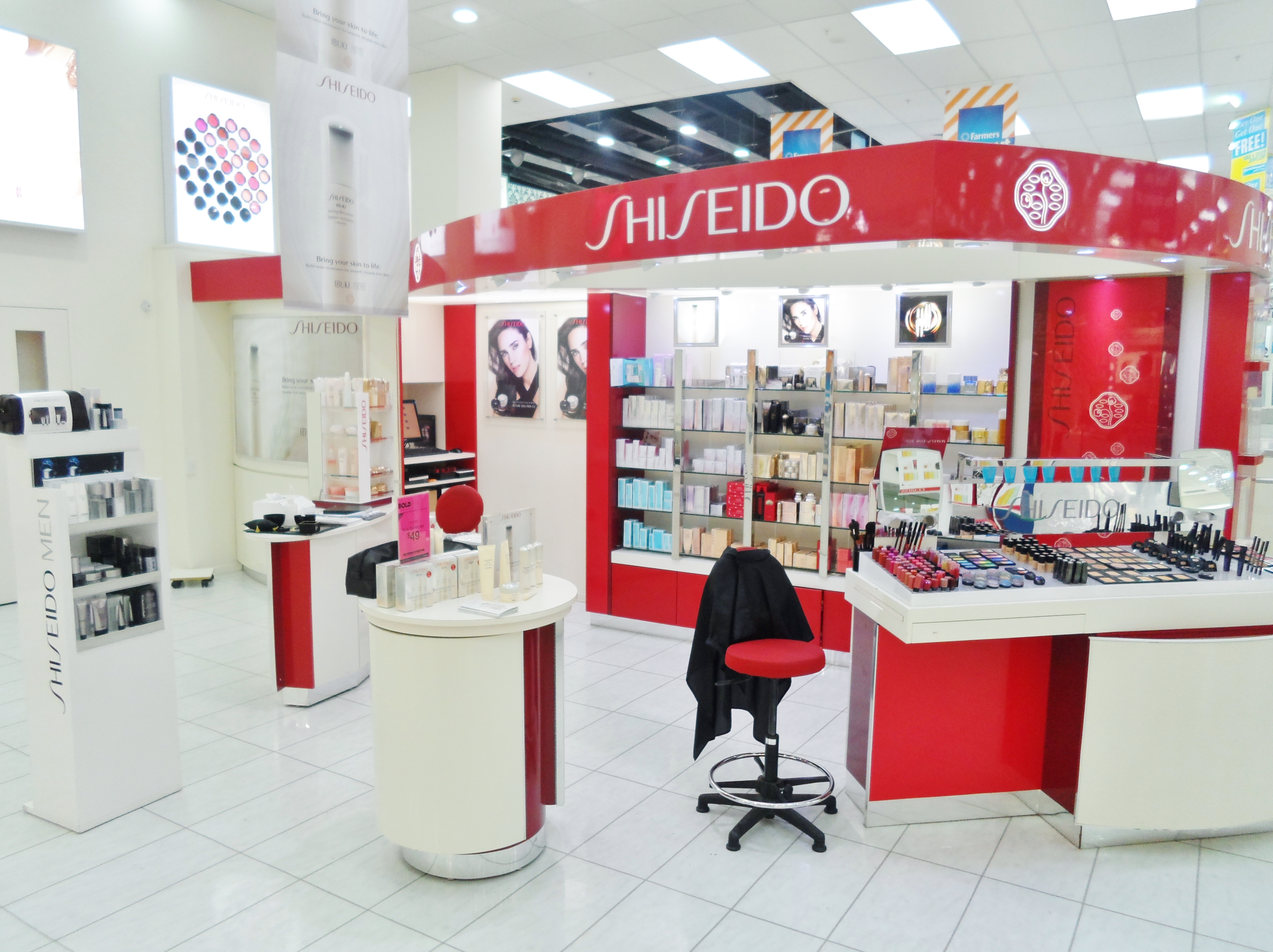 Shiseido counter at New Zealand department store Farmers in Dunedin in 2013.